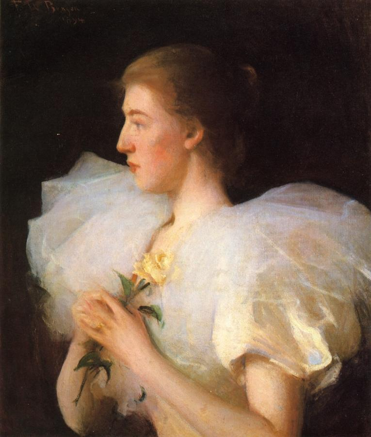 Portrait of Emily Vanderbilt Binney (oil), 1894, by Frank Weston Benson